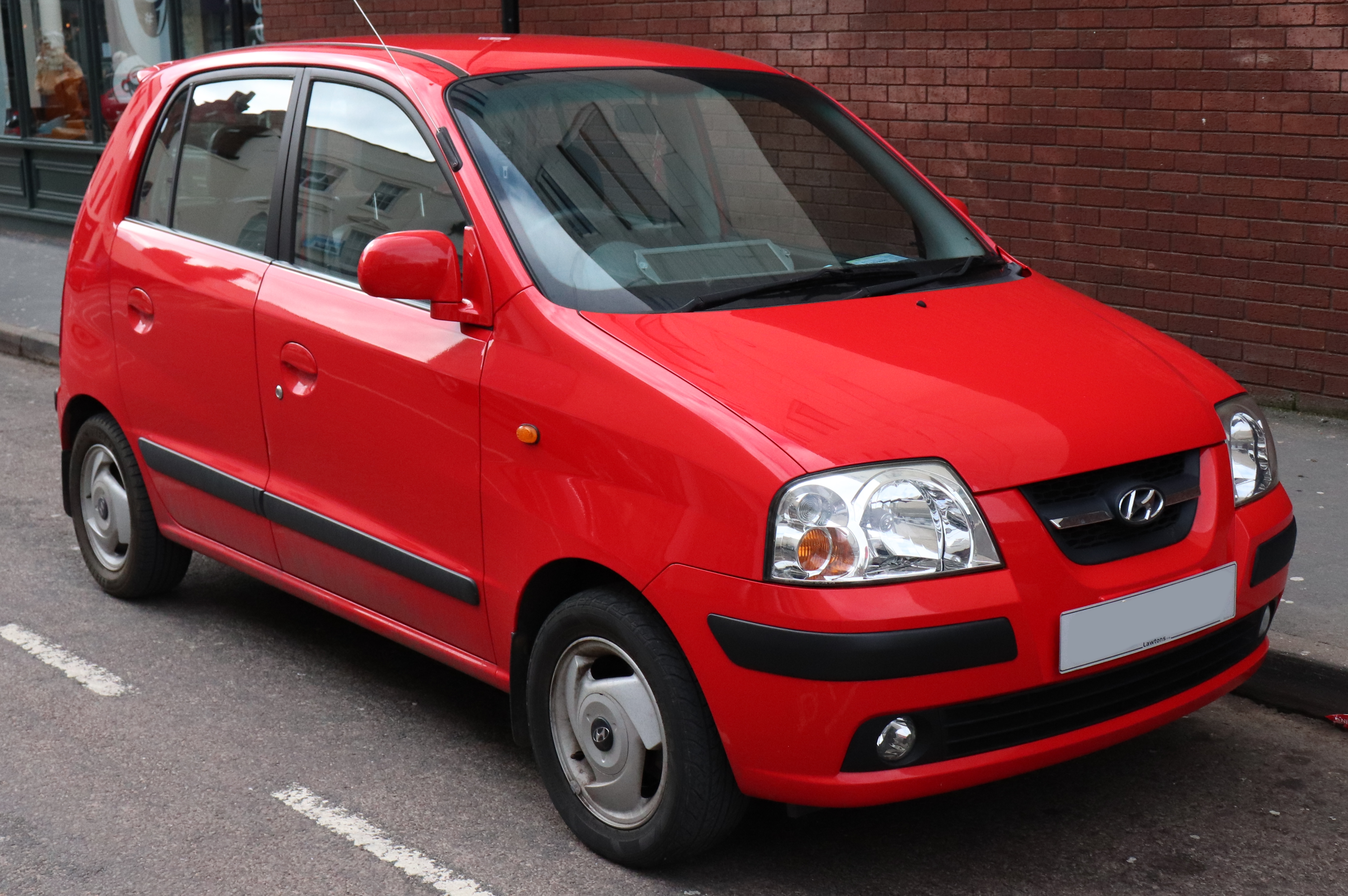 2006 Hyundai Amica CDX 1.1 Front Taken in Leamington Spa